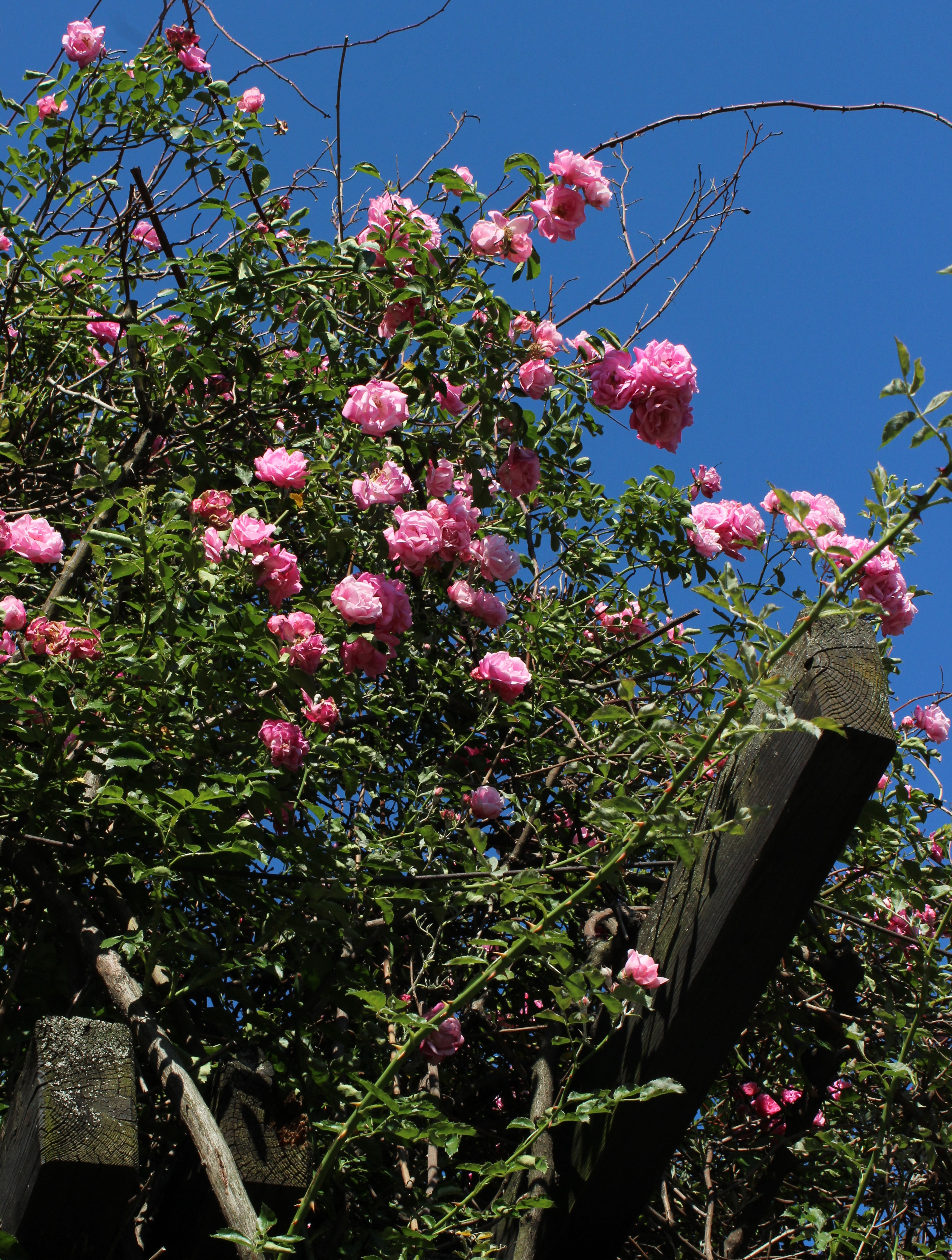 Rosa 'Fragezeichen' in the Rosarium Wettsteinpark in Vienna, Austria. Identified by sign.